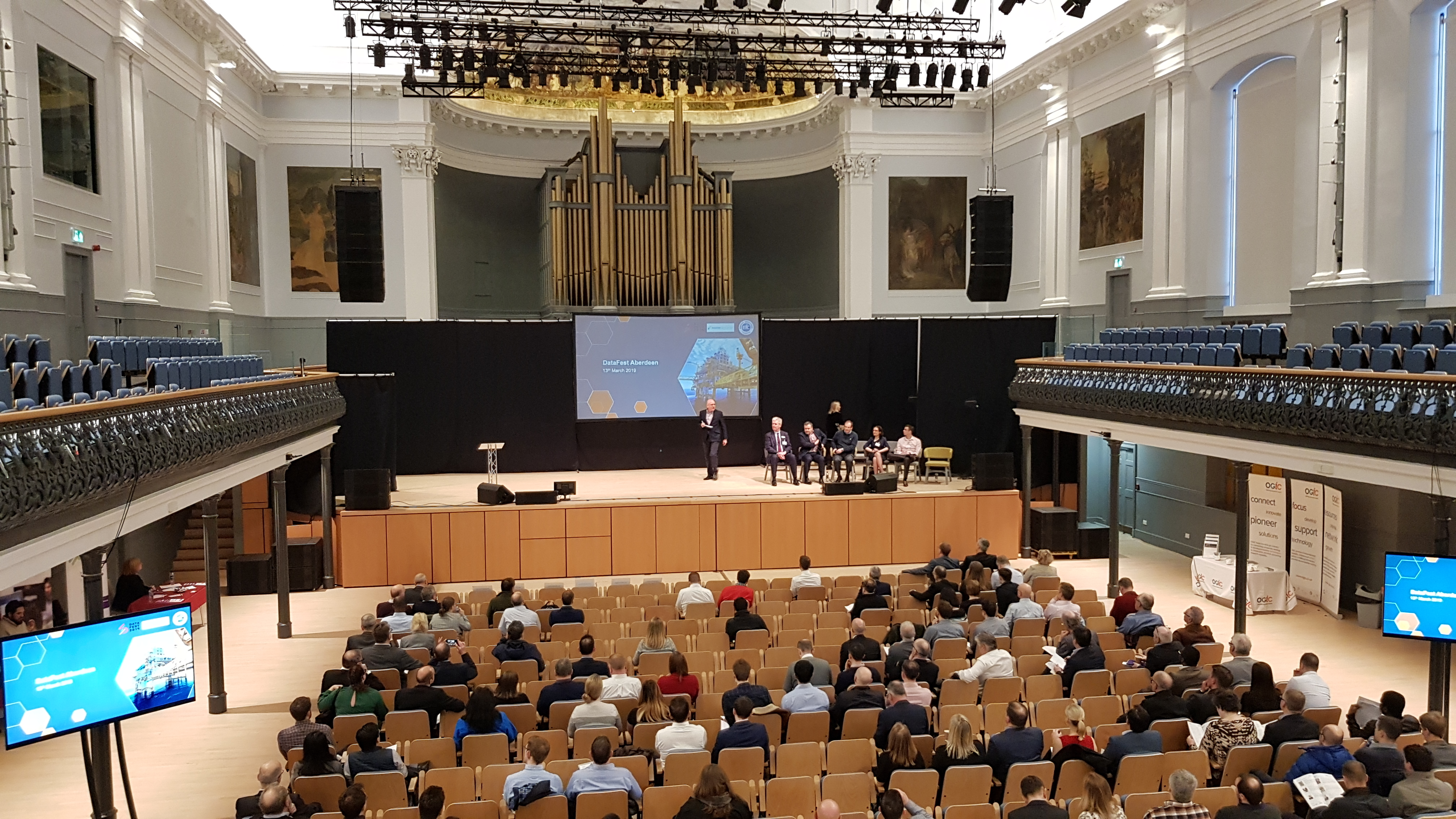 Interior of The Music Hall, Aberdeen (post-renovation 2019)